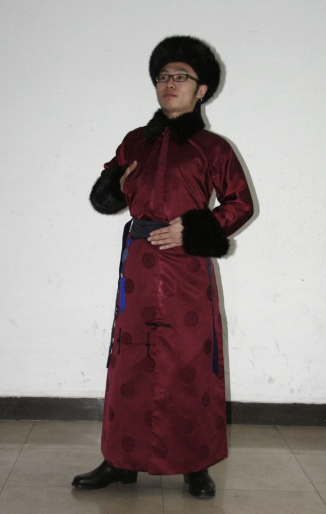 a Manchu young man dressed in traditional clothes